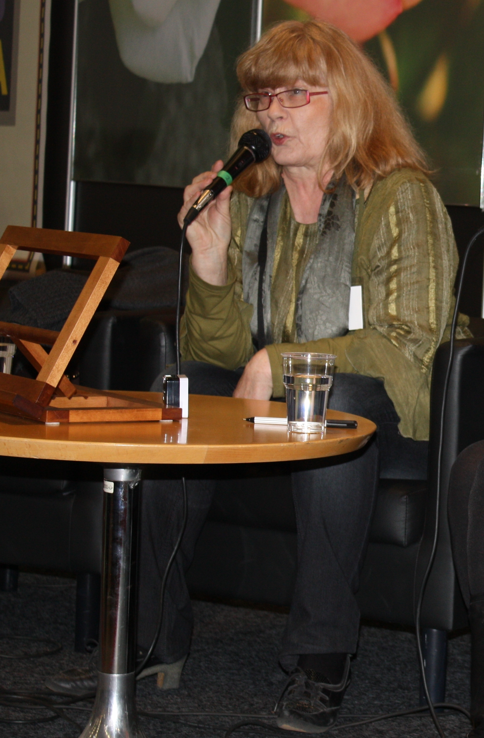 Finnish writer Anita Konkka at the Helsinki Book Fair 2009.